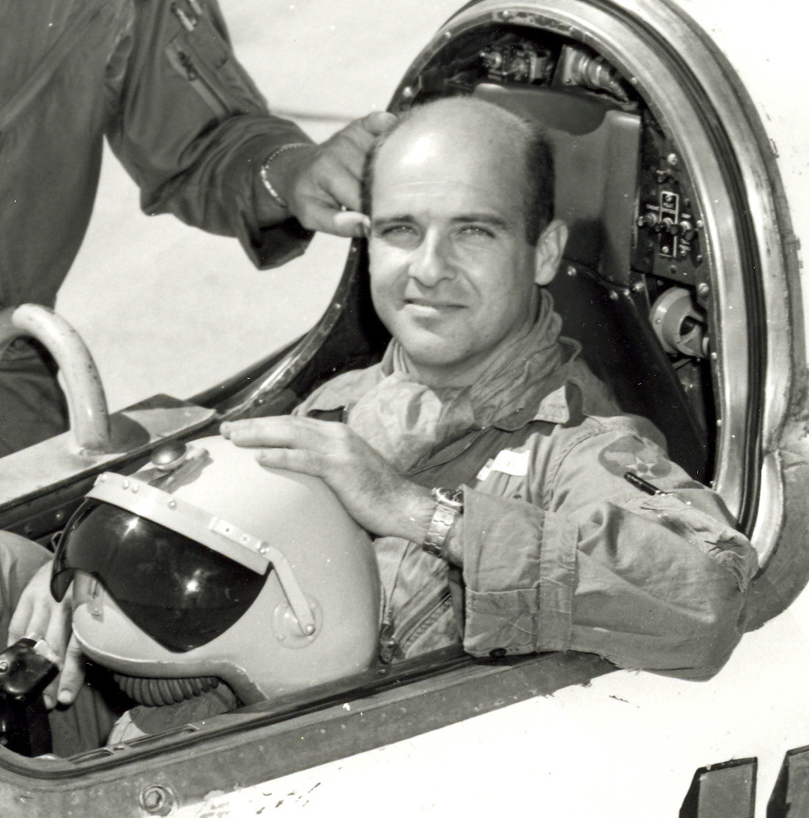 Captain Mel Apt in the cockpit of the Bell X-2 rocket-powered aircraft. This image was cropped from a larger photo of Iven C. Kinchloe and Mel Apt.